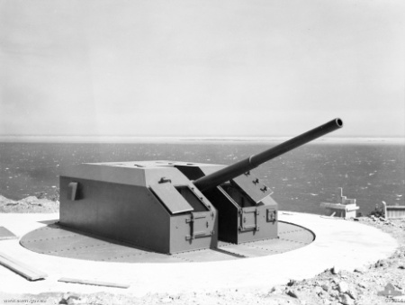 AWM caption : "PORT MORESBY, PAPUA. 1944-08-17. NO. 2 GUN (5.25) OF THE BASILISK BATTERY, 801ST ANTI-AIRCRAFT AND COAST ARTILLERY BATTERY COMPLETED AND READY FOR ACTION WITH THE EXCEPTION OF CLOSING THE RIGHT AND LEFT HAND PORTS".